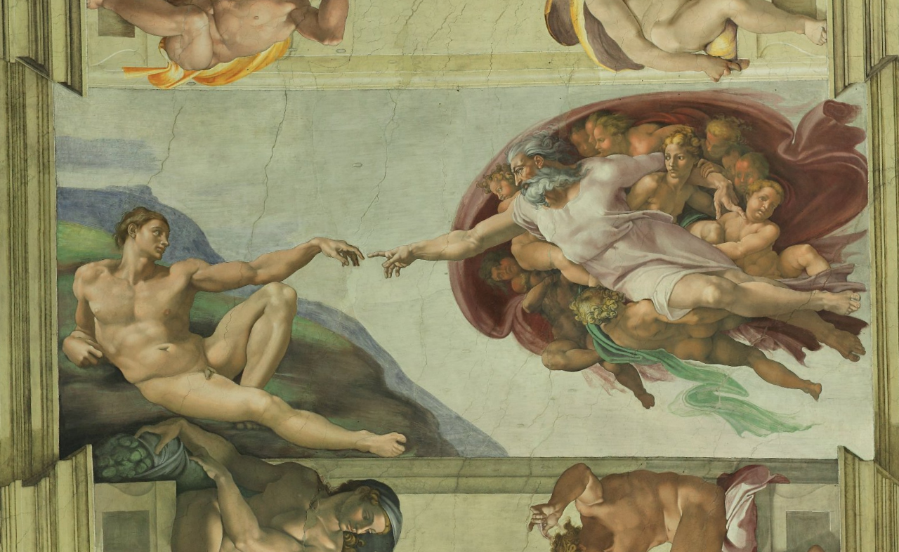 An image of "The Creation of Adam" from the Sistine Chapel ceiling that is of better quality than the other images I have been able to find on Wikimedia Commons.